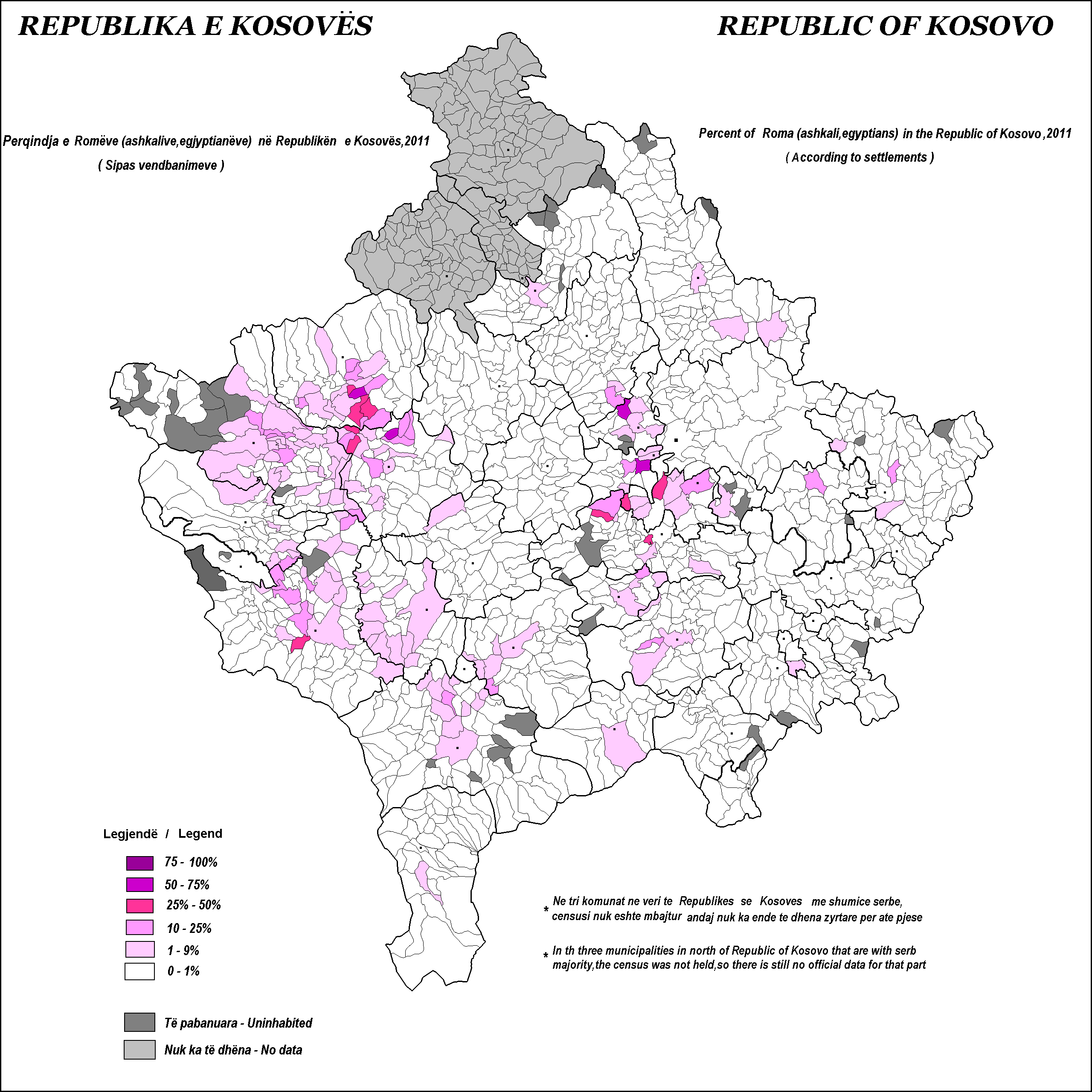 Roma people(Ashkali,egyptians) in Kosovo,in the 2011 census.